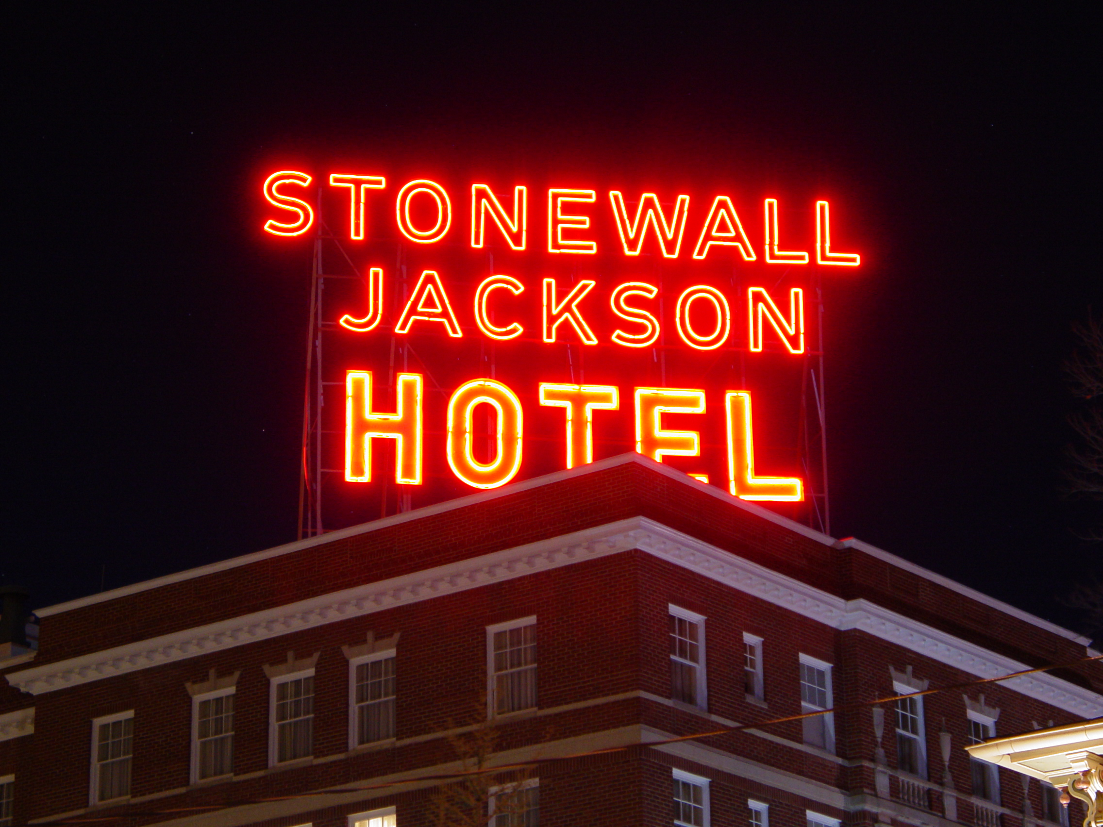 The neon sign on the roof of the Stonewall Jackson Hotel in Staunton, Virginia. The sign was erected about 1950, and was restored in 2005.